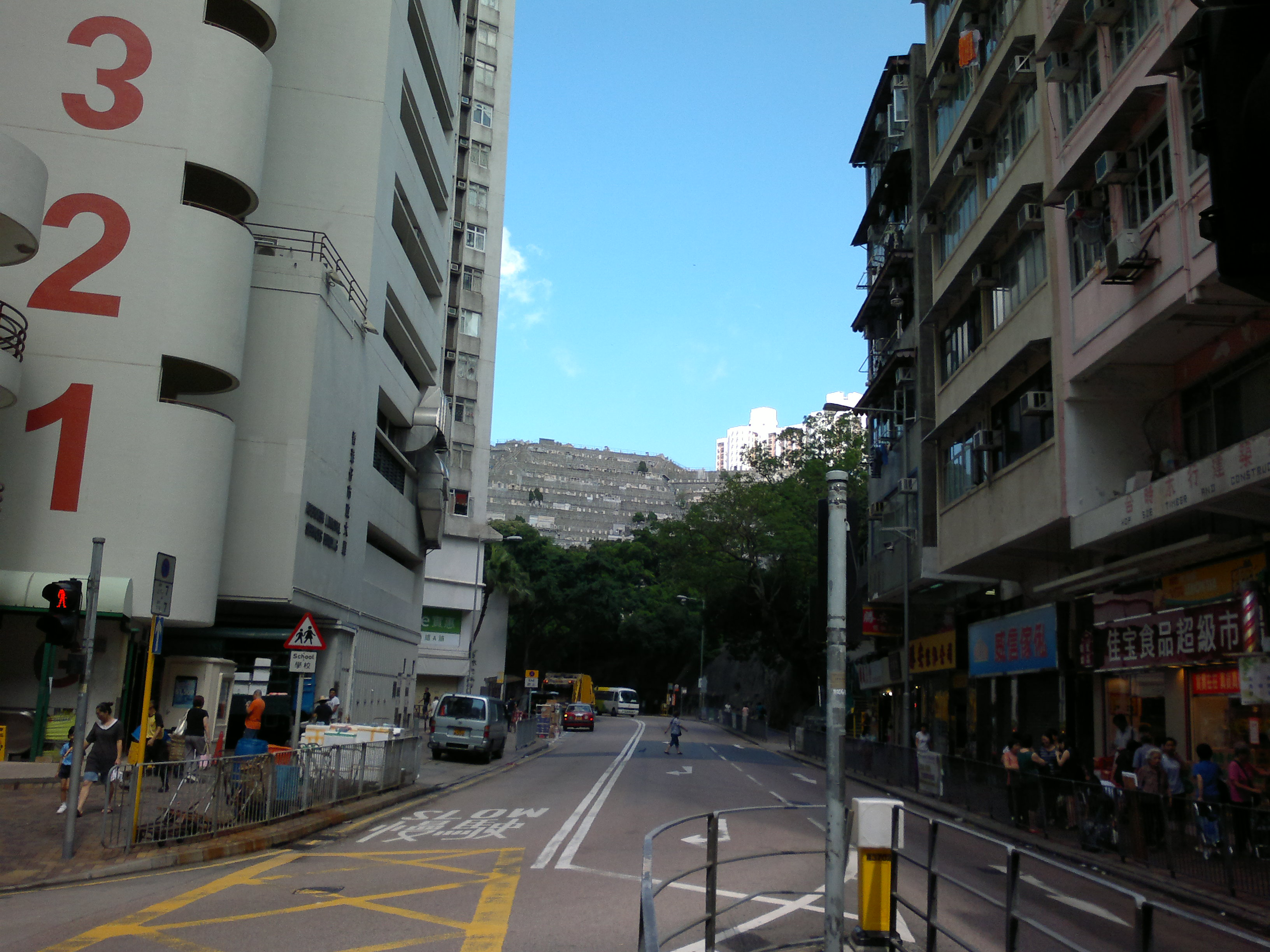 Aberdeen Main Road near Aberdeen Complex